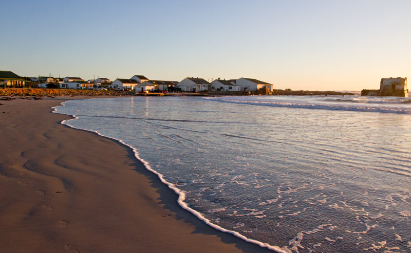 A very small town on the Northen Cape Coast... This media shows a South African Protected Site with SAHRA file reference Hondeklipbaai.